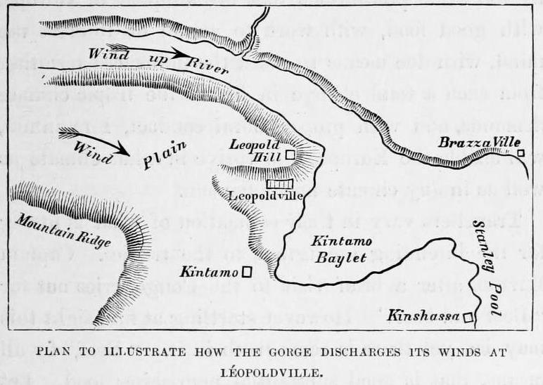 Pictures excerpted from HM Stanley's book "The Congo and the founding of its free state; a story of work and exploration (1885)"